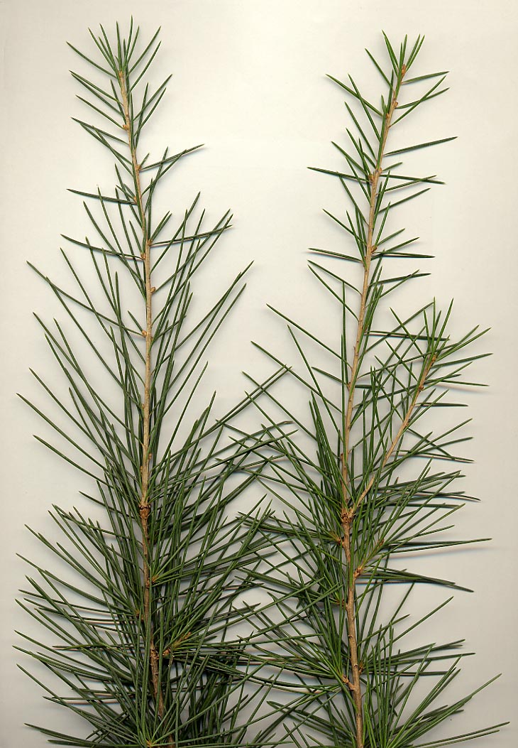 Deodar Cedar shoots